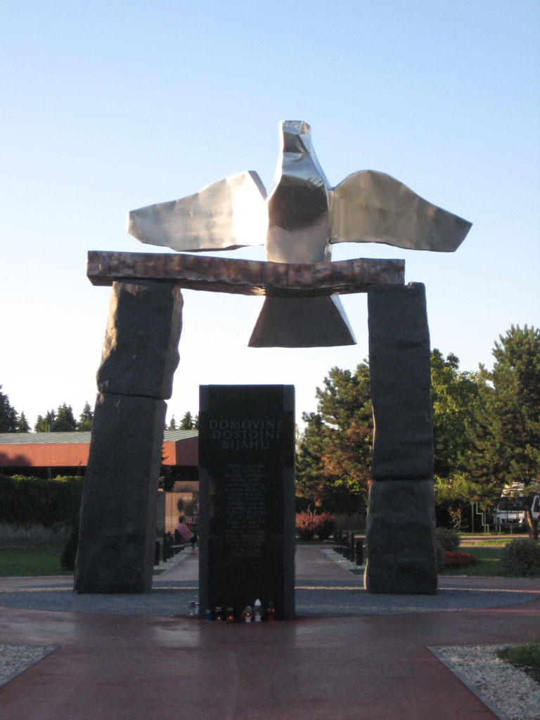 Spomenik poginulim braniteljima